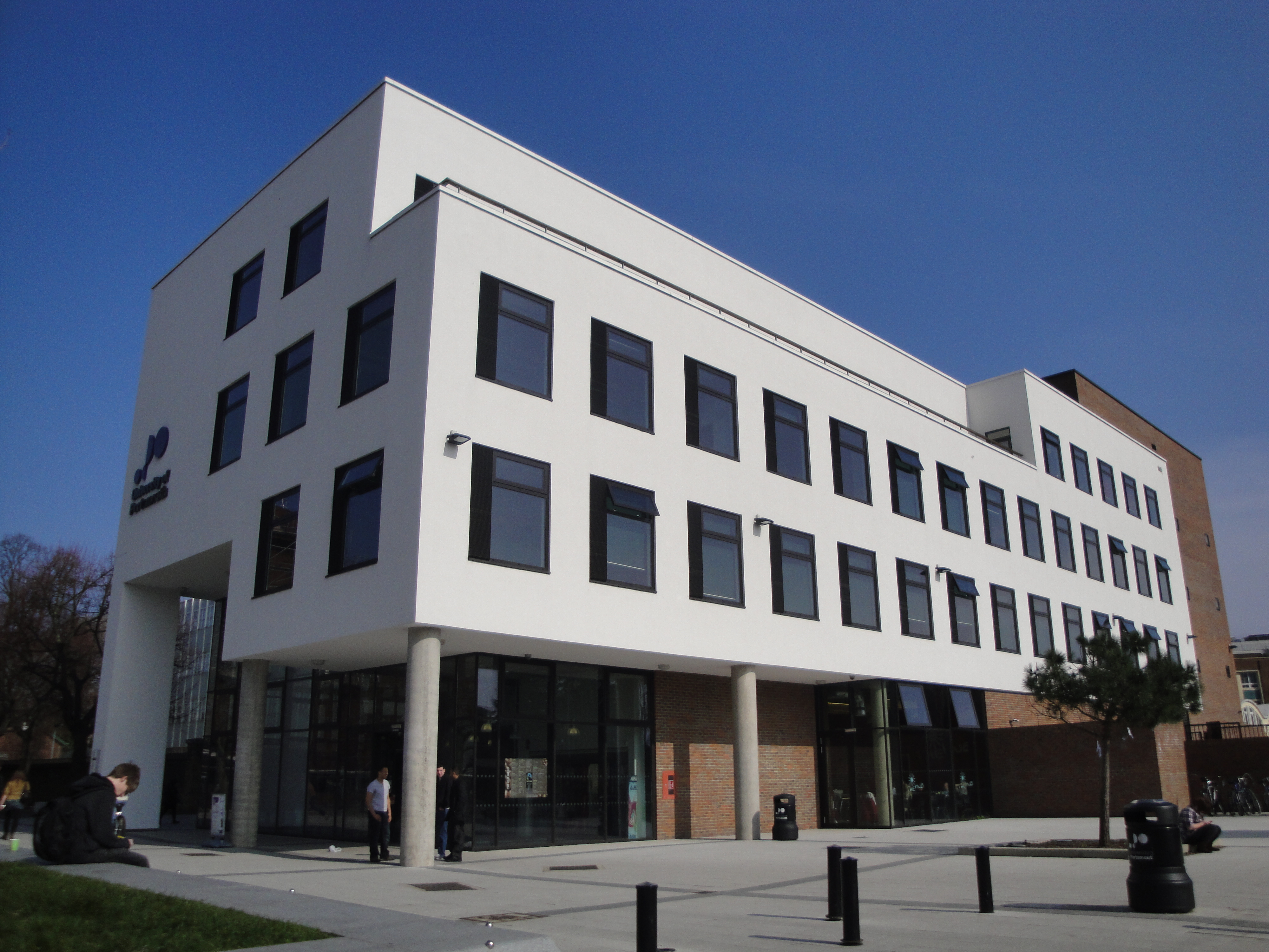 The Dennis Sciama building, the newest building of the University of Portsmouth, located in Richmond Place, Portsmouth, Hampshire. It was completed and opened for the academic year in September 2009.